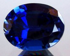 Blue Sapphire